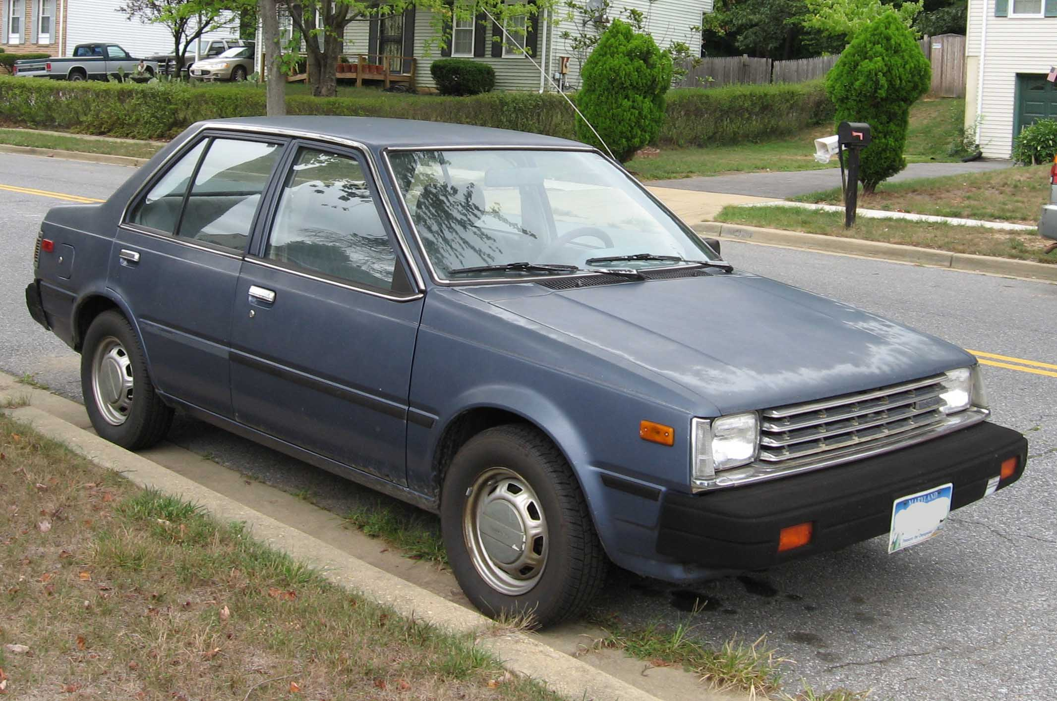 1982-1983 Nissan Sentra photographed in USA.